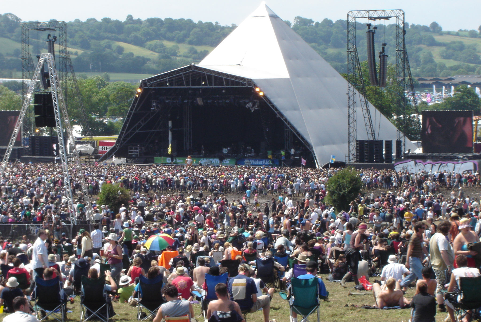 Early Sunday afternoon crowd at the Pyramid